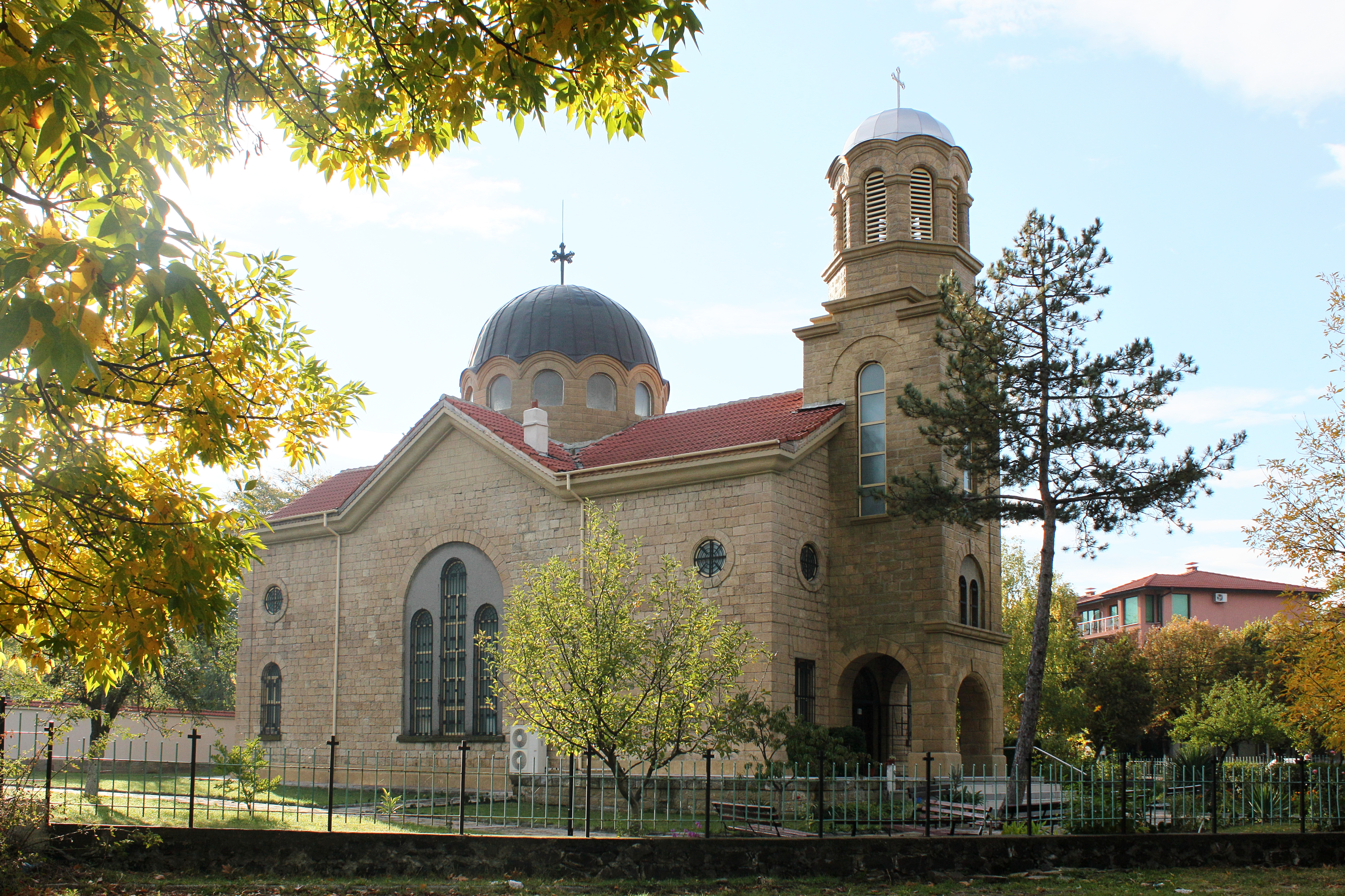 Momchilgrad, Bulgaria